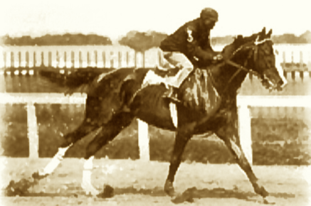 Oliver Lewis was a jockey in the early years of thoroughbred racing.